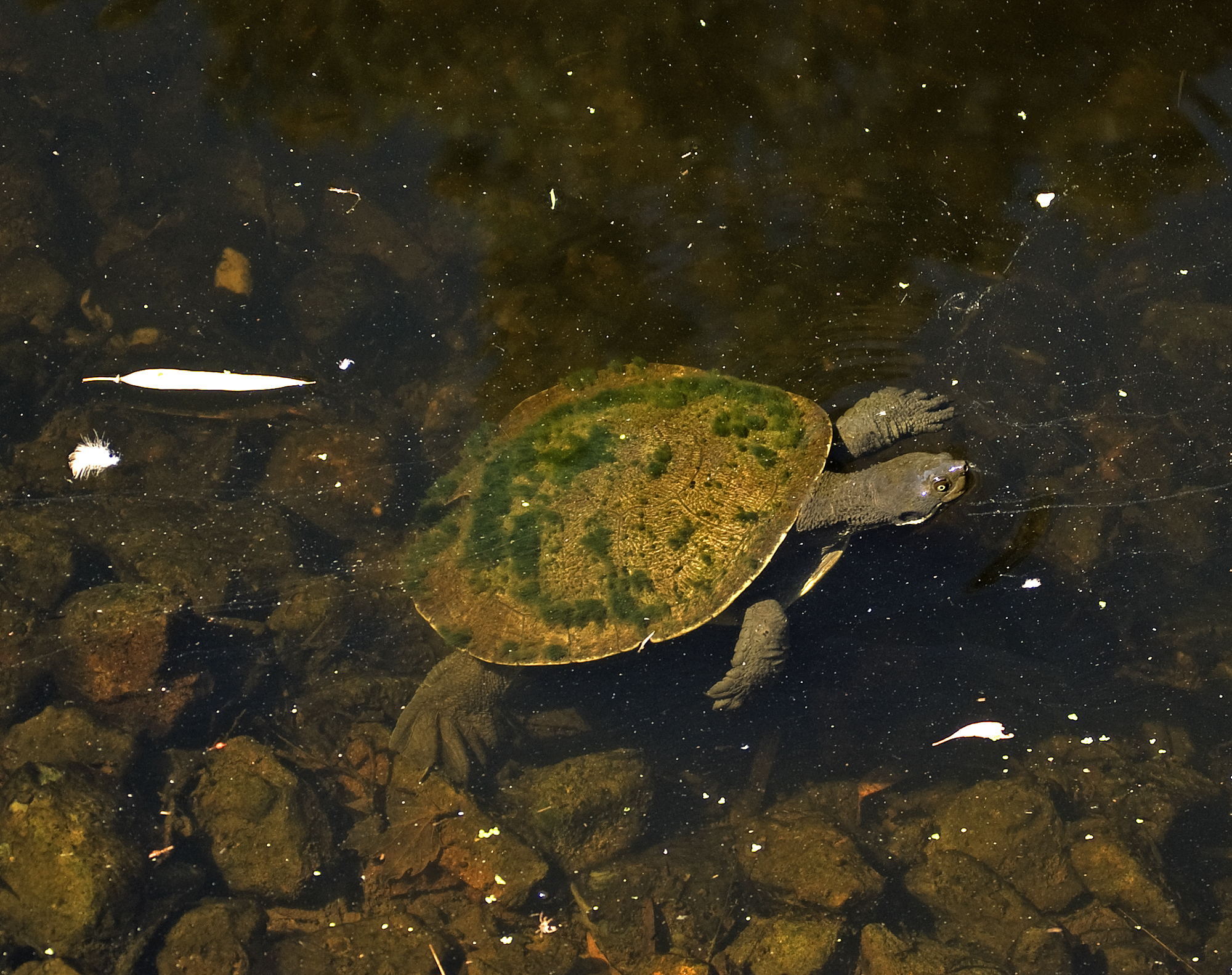 Emydura macquarii (known as the Macquarie, Bellinger and Murray River Turtle) in the Wollundry Lagoon in Wagga Wagga, New South Wales, Australia.